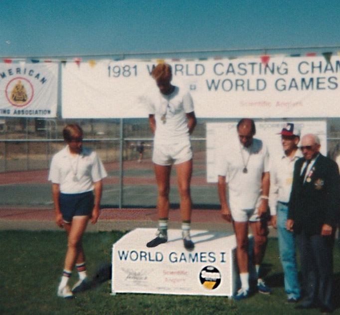 Casting - medal podium at World Games I